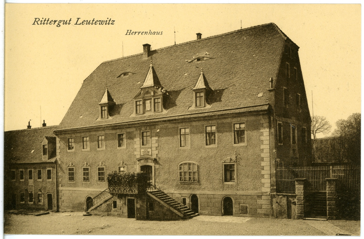 This postcard is from publisher Brück & Sohn in Meißen ( This postcard has a unique number 20034 and is available in a higher resolution at the publisher. This images was uploaded in a cooperation project between Wikipedians and the publisher.